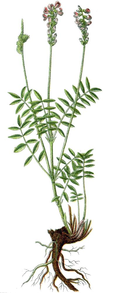 Onobrychis viciifolia Original Caption Esparette, Hedysarum onobrychis